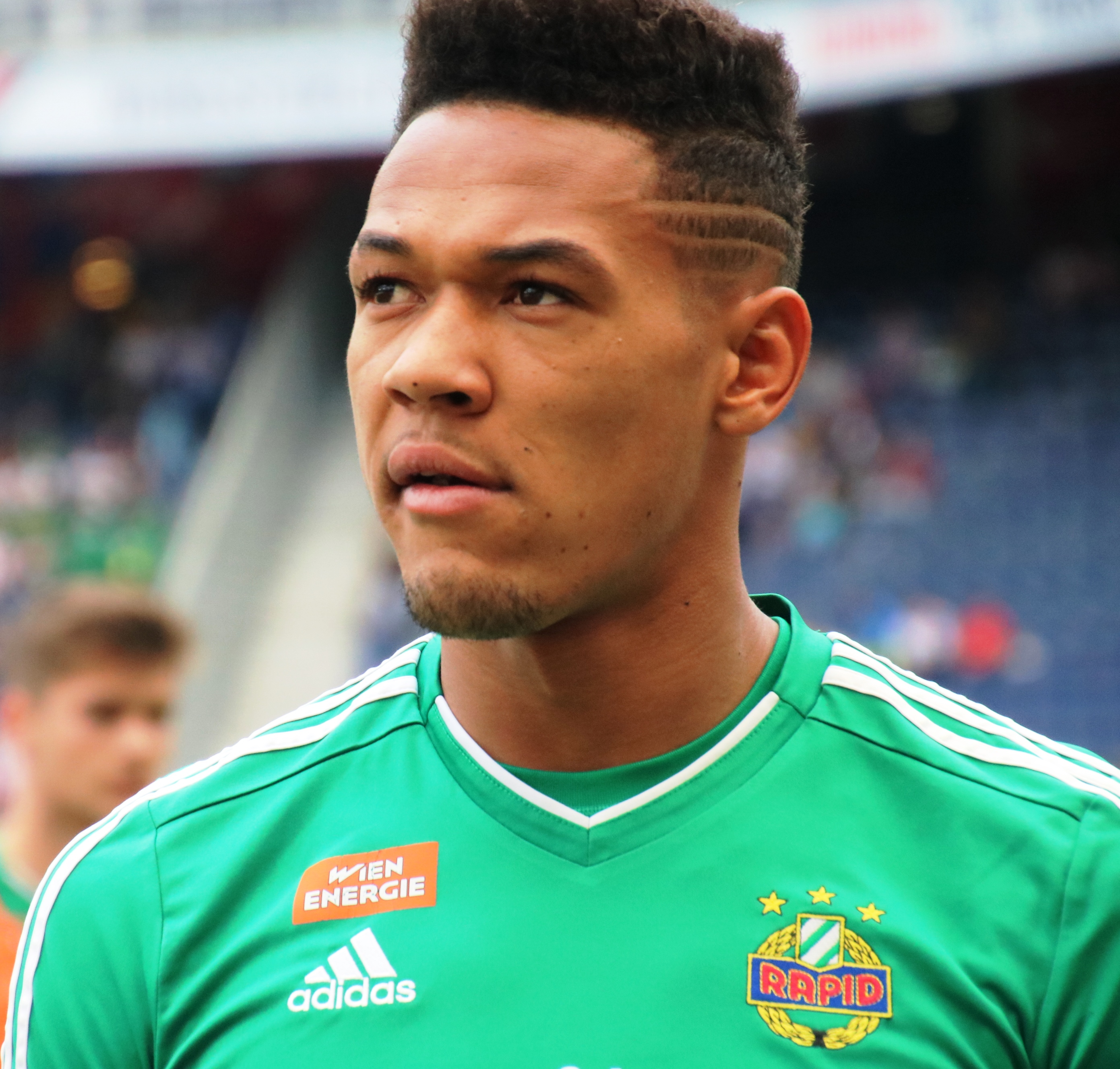 league match Austrian Bundesliga